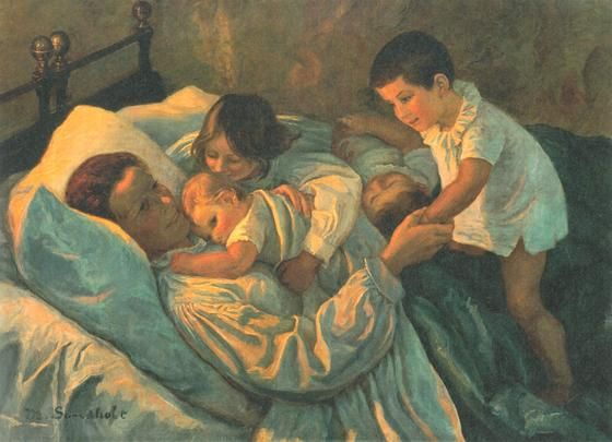 "Joy of Children", painting by the Danish artist Marie Sandholt (1872-1942)